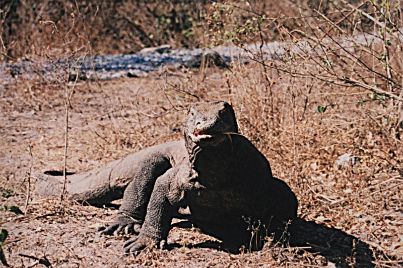 You could clearly see fork-like tongue of the dragon. The picture was taken only a minute before he charged. Photograped by Brocken Inaglory on Komodo Island, Indonesia. The image is a digital picture of my old film picture.